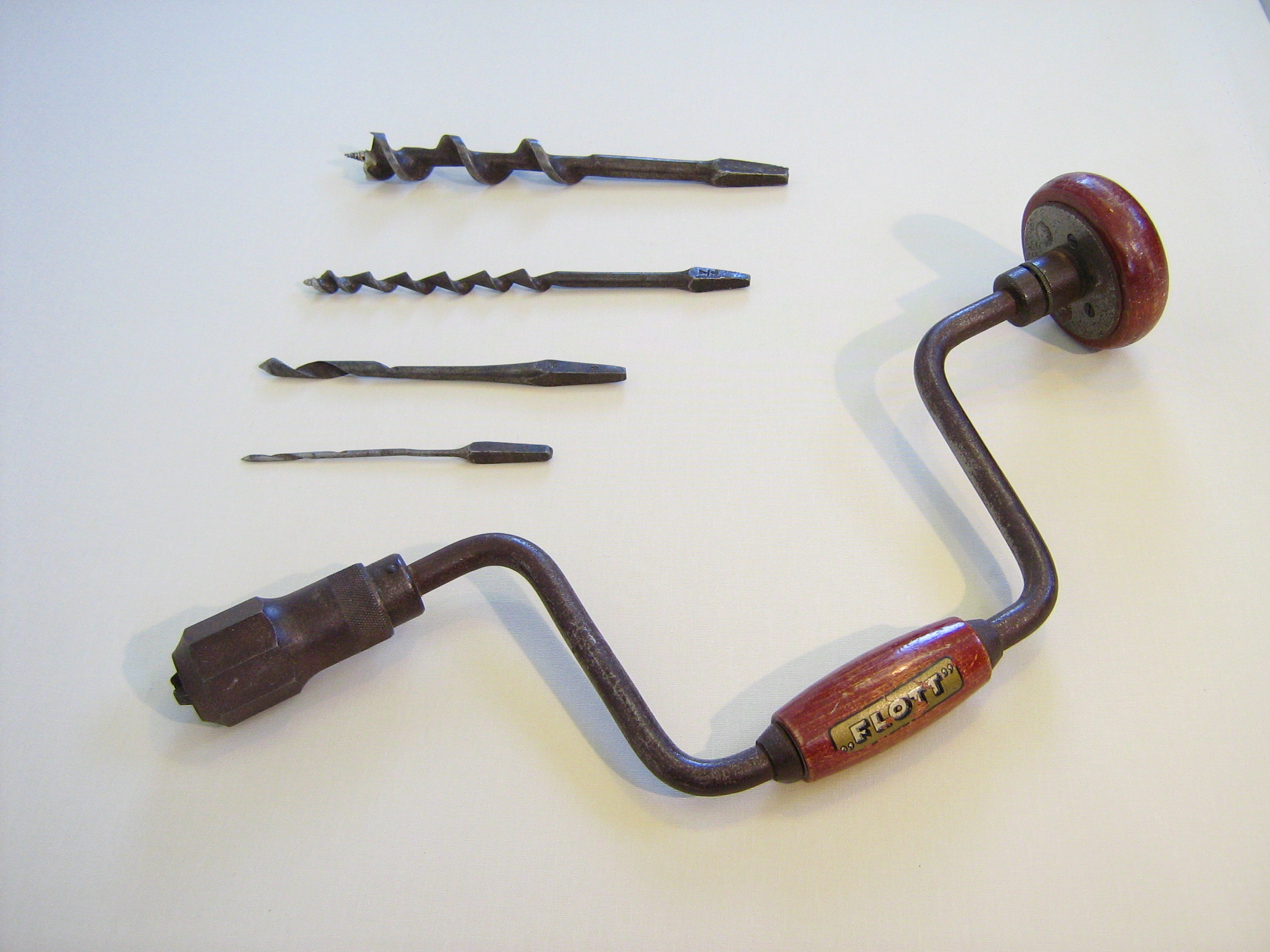 Brace, a manual drill of the brand "Flott", with drills. This brace has a ball bearing. (NL: Een handboor van het merk "Flott", met boren. Deze handboor heeft een kogellager)